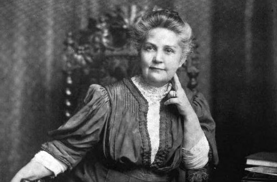 Mary Thorn Lewis Gannett was a social activist in Rochester, New York, and a friend of Susan B. Anthony. Her husband, William Channing Gannett, was minister of the First Unitarian Church of Rochester from 1889 to 1908.